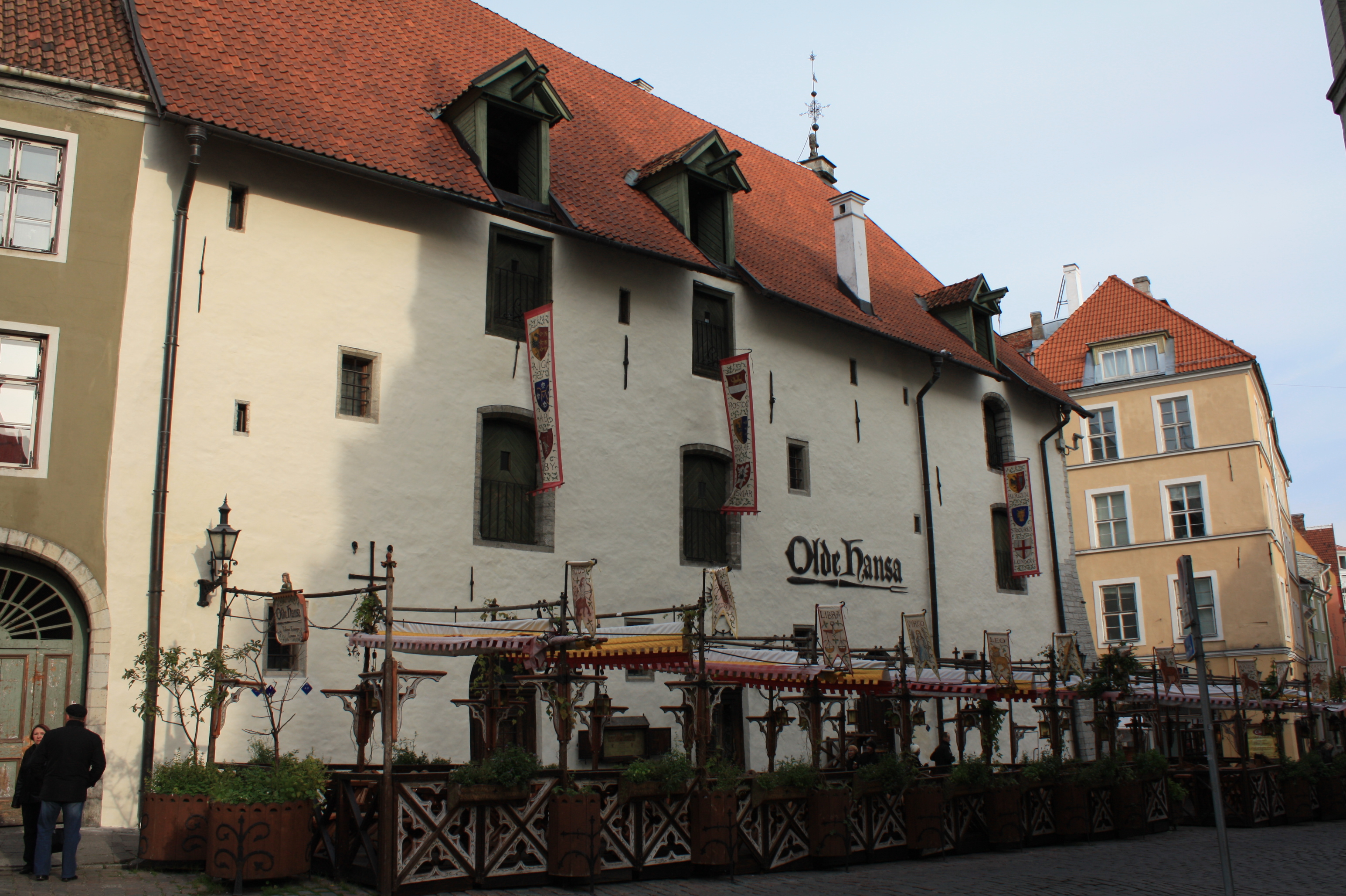 Olde Hansa restaurant Tallinn